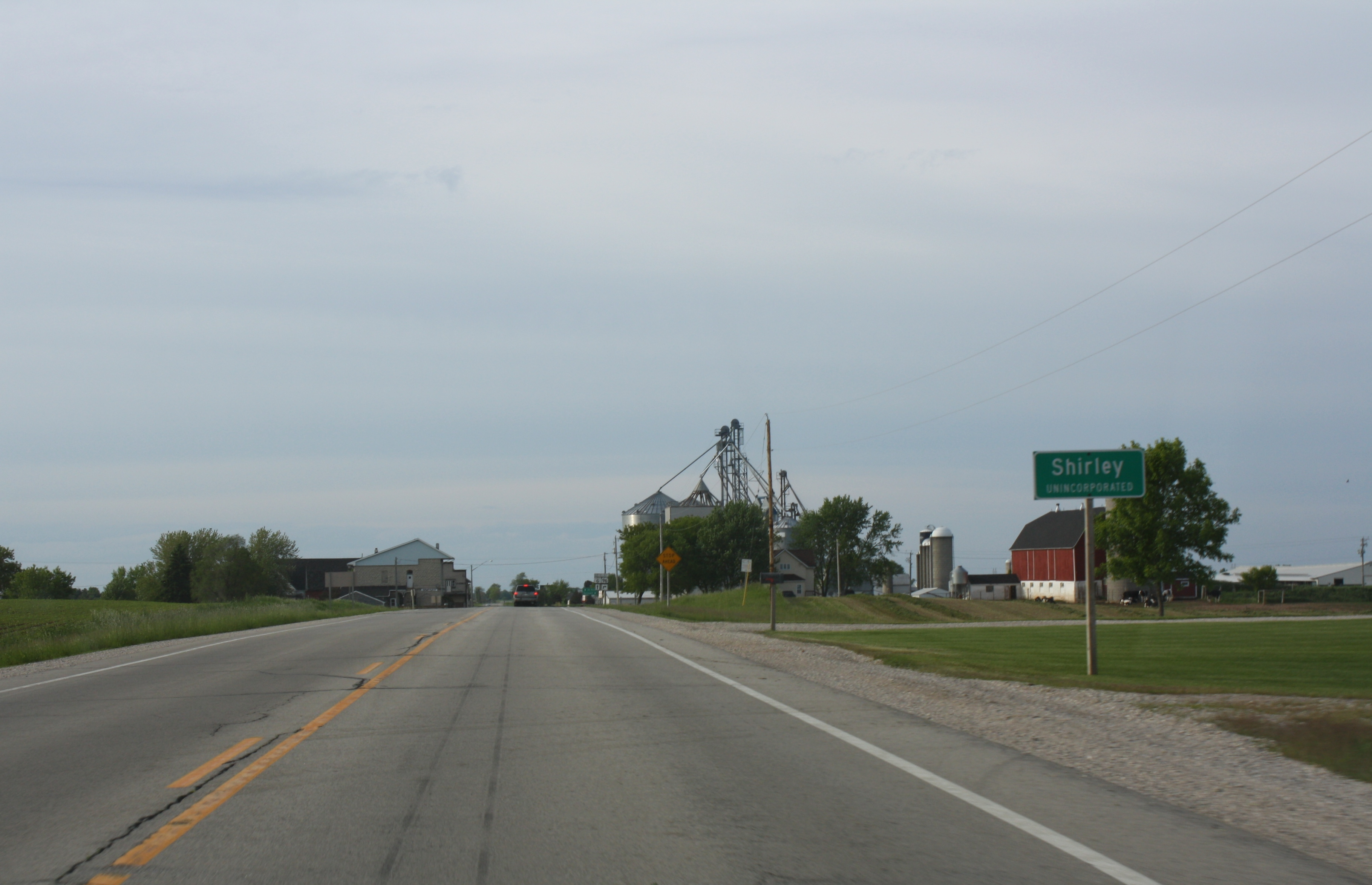 Looking north at Shirley, Wisconsin while traveling on Wisconsin Highway 96.